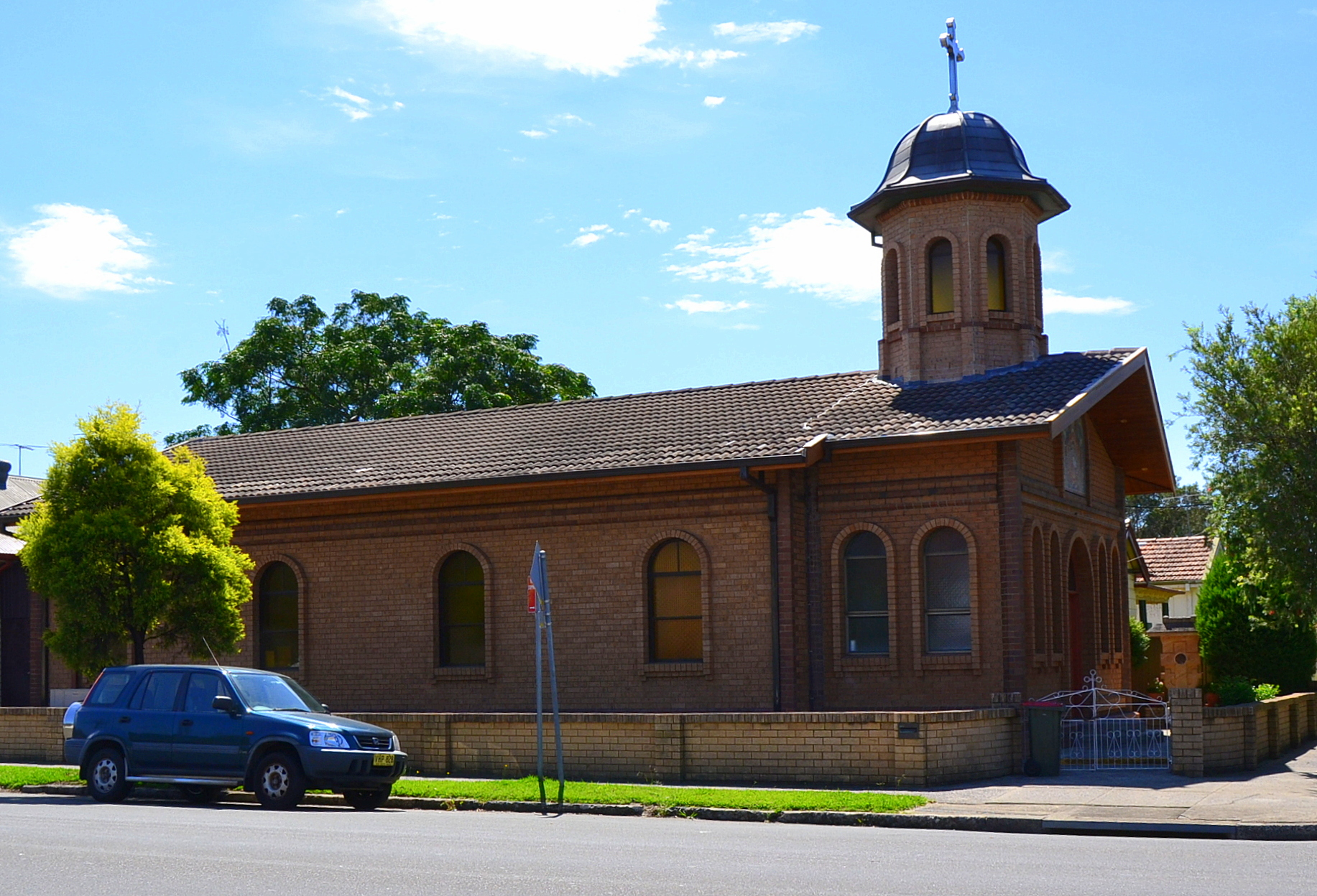 Romanian Orthodox Church, Sydney